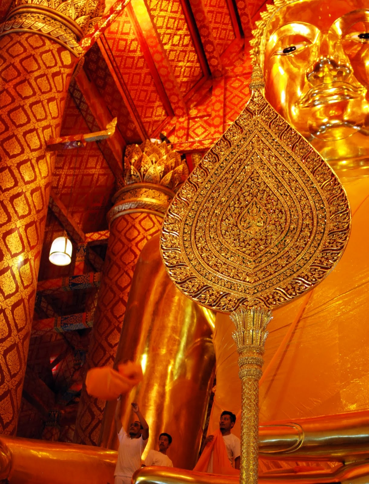 Wat Phanan Choeng, from 1324 CE, houses an immense seated gilded Buddha which was made in 1334 CE. The statue is 19 meters high and it survived the destruction of Ayutthaya by the Burmese in 1767 CE. Wat Phanan Choeng is the oldest working temple in the city. Folded orange lengths of cloth are thrown up from the ground to people who are standing in the Buddha's lap. The robes are then unfolded and rolled out from above over the worshippers below as a form of blessing.